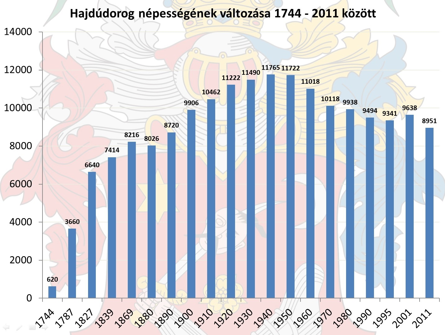 Number of the inhabitants of Hajdúdorog, Hungary from 1744 till 2011.